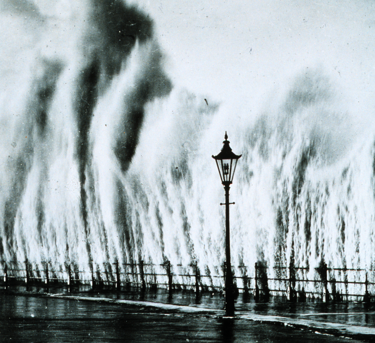 This image shows storm surge from the Great Hurricane of 1938 hitting a seawall. It is credited to NOAA/NWS Historic Collection.